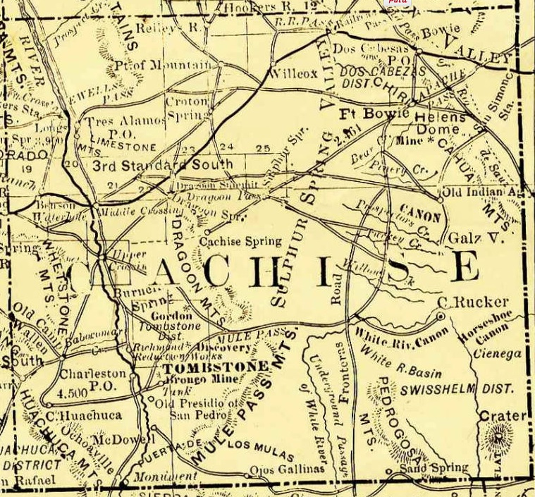 Arizona, 1881, map showing roads, railroads, towns, mines, mountains and rivers. Enlarged and cropped Cochise County portion of map.